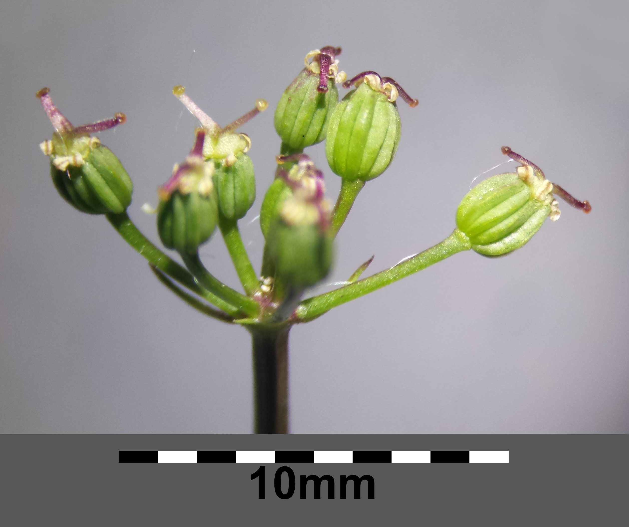 Umbellet (♀-Individual) Taxonym: Trinia glauca (subsp. glauca) ss Fischer et al. EfÖLS 2008 ISBN 978-3-85474-187-9 Location: Blosenberg near Winzendorf, district Wiener Neustadt, Lower Austria - ca. 380 m a.s.l. Habitat: dry grassland